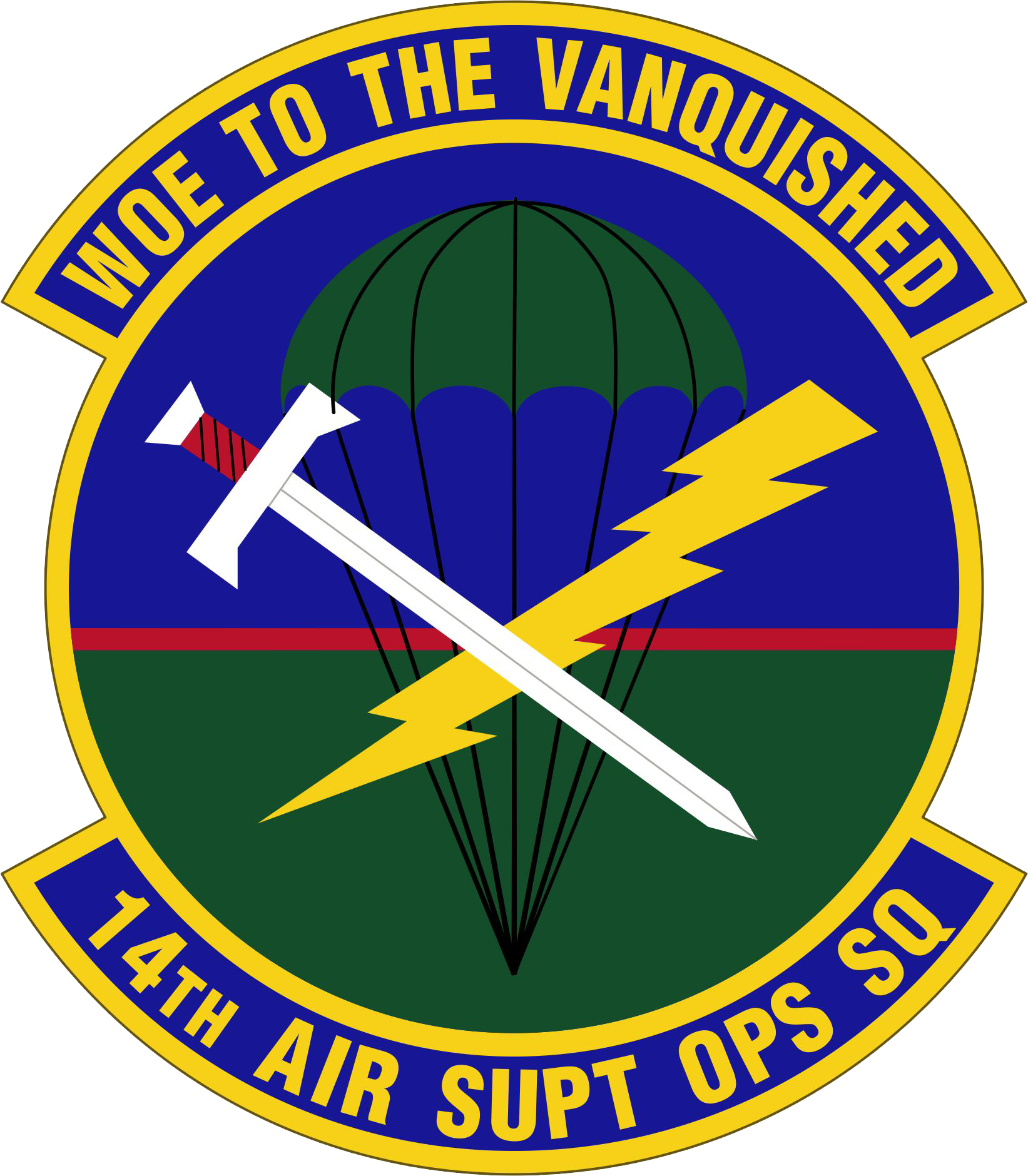 14th Air Support Operations Squadron logo